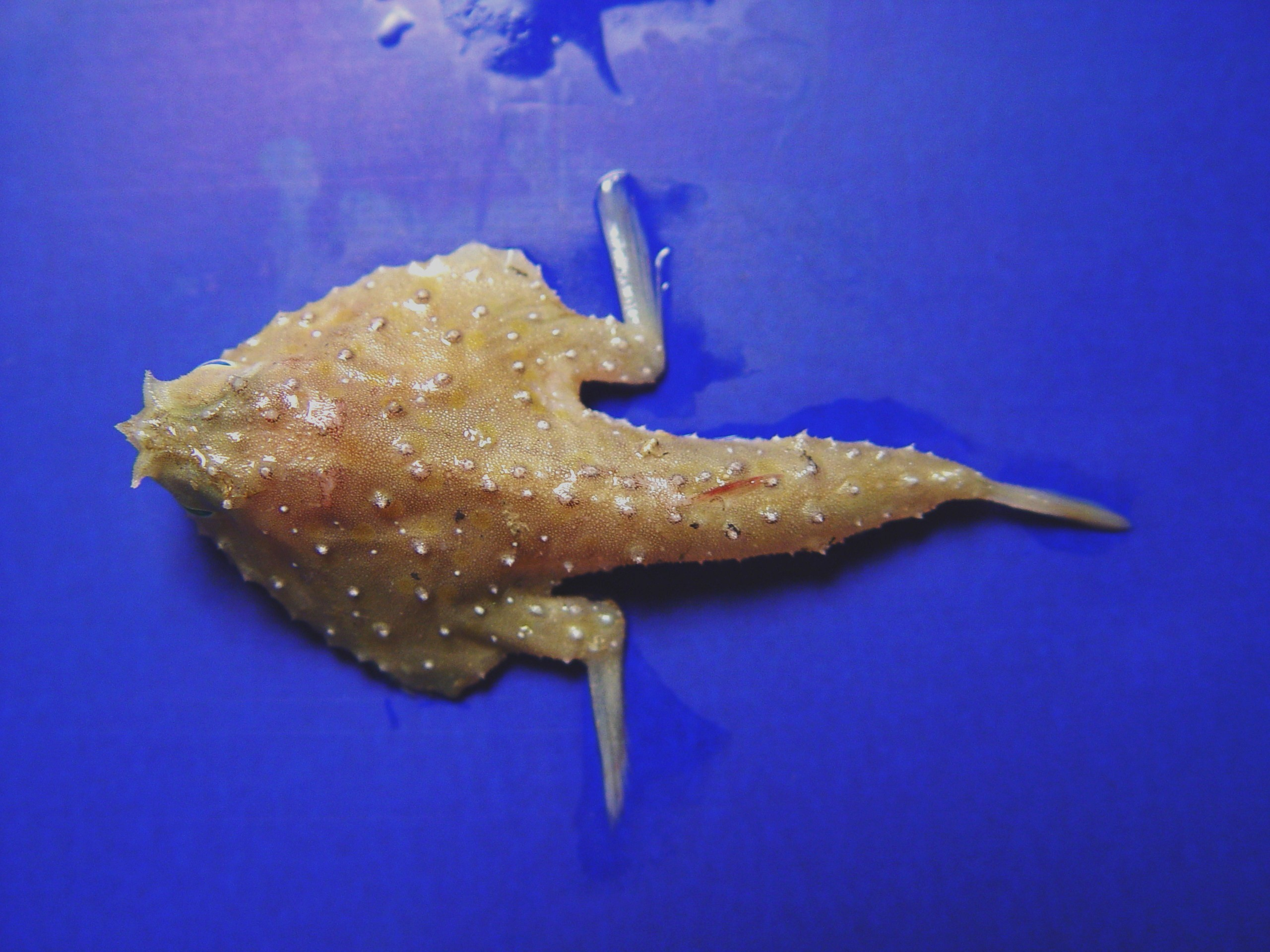 Tricorn batfish ( Zalieutes mcgintyi )